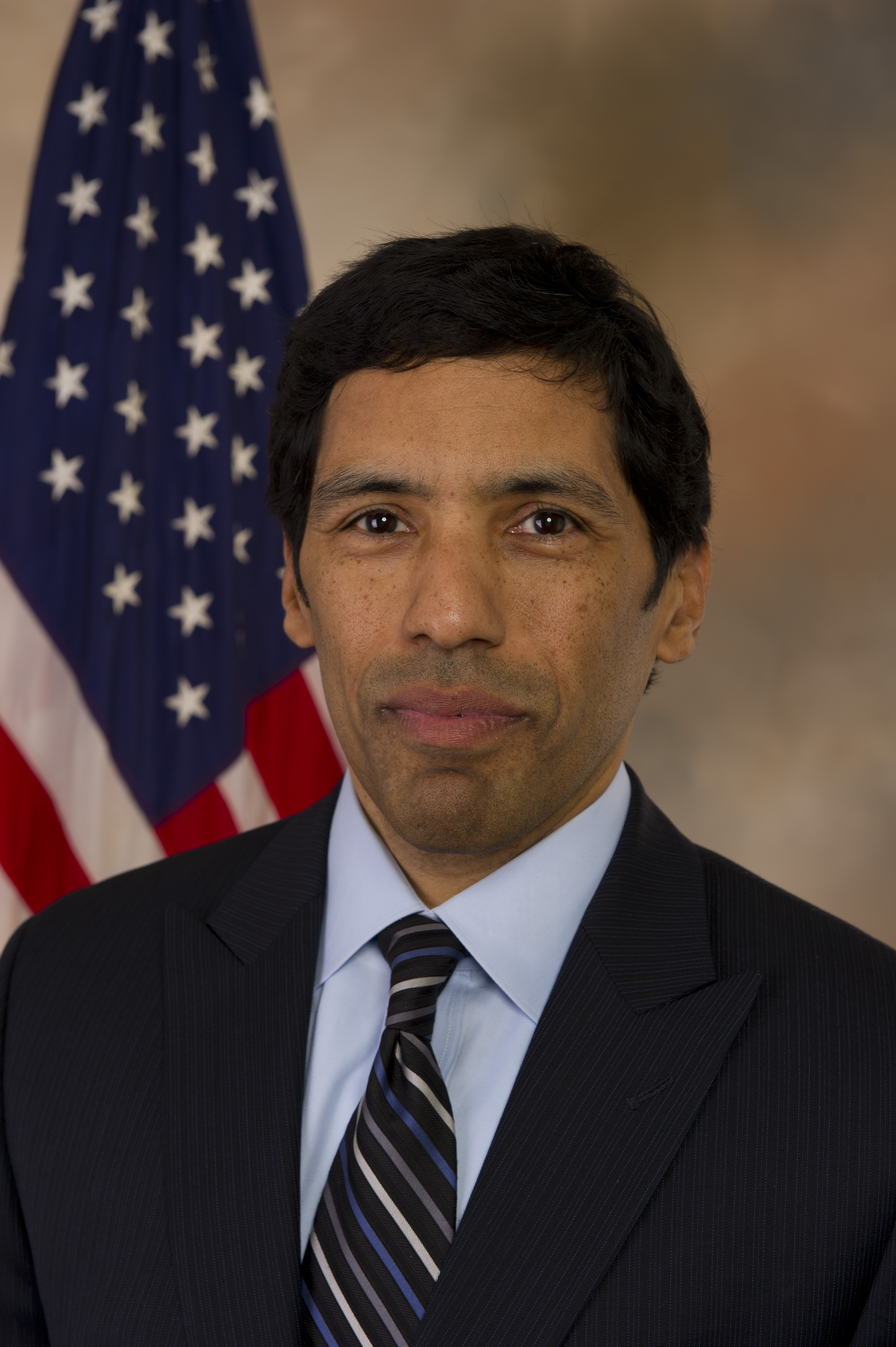 Official portrait of US Rep. Hansen H. Clarke.